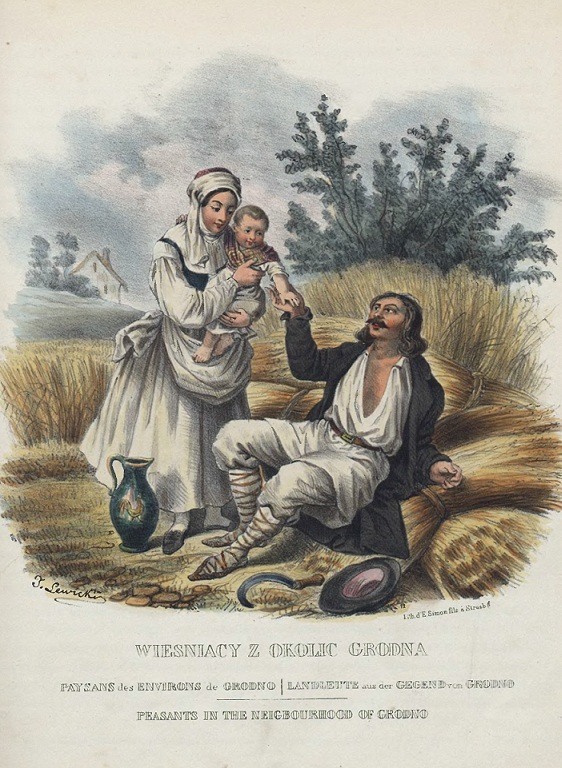 "Peasants in the neigbourhood[sic] of Grodno"